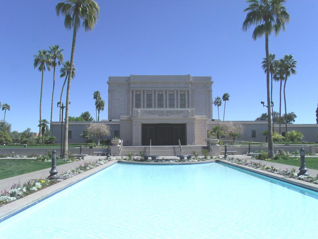 The Mesa Arizona Temple located in Mesa, Arizona was built in 1919. This temple of The Church of Jesus Christ of Latter-day Saints is the namesake of, and central structure in the Historic Mesa Temple District, which is listed in the National Register of Historic Places.